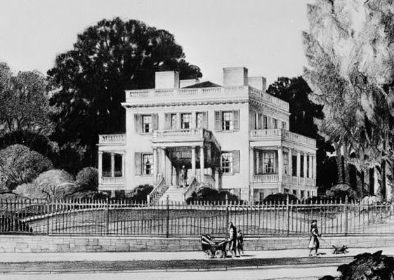 Hamilton Grange, moved from 237 West 141 Street to 287 Convent Avenue, New York, New York County, NY. It is now a National Memorial. Photocopy of drawing by OH.F. Langmann (location of original unknown) showing house before the 1889 move. Perspective view of south (front) and east side.